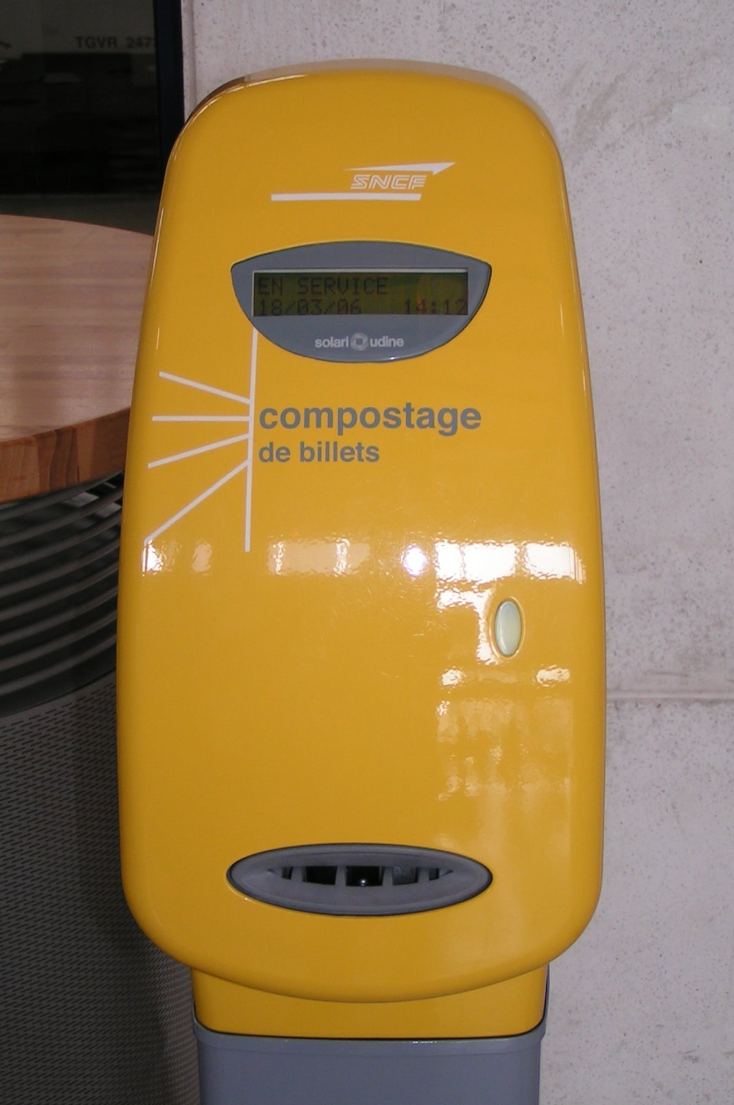 SNCF punching machine for main lines tickets. This model was introduced in 2004.